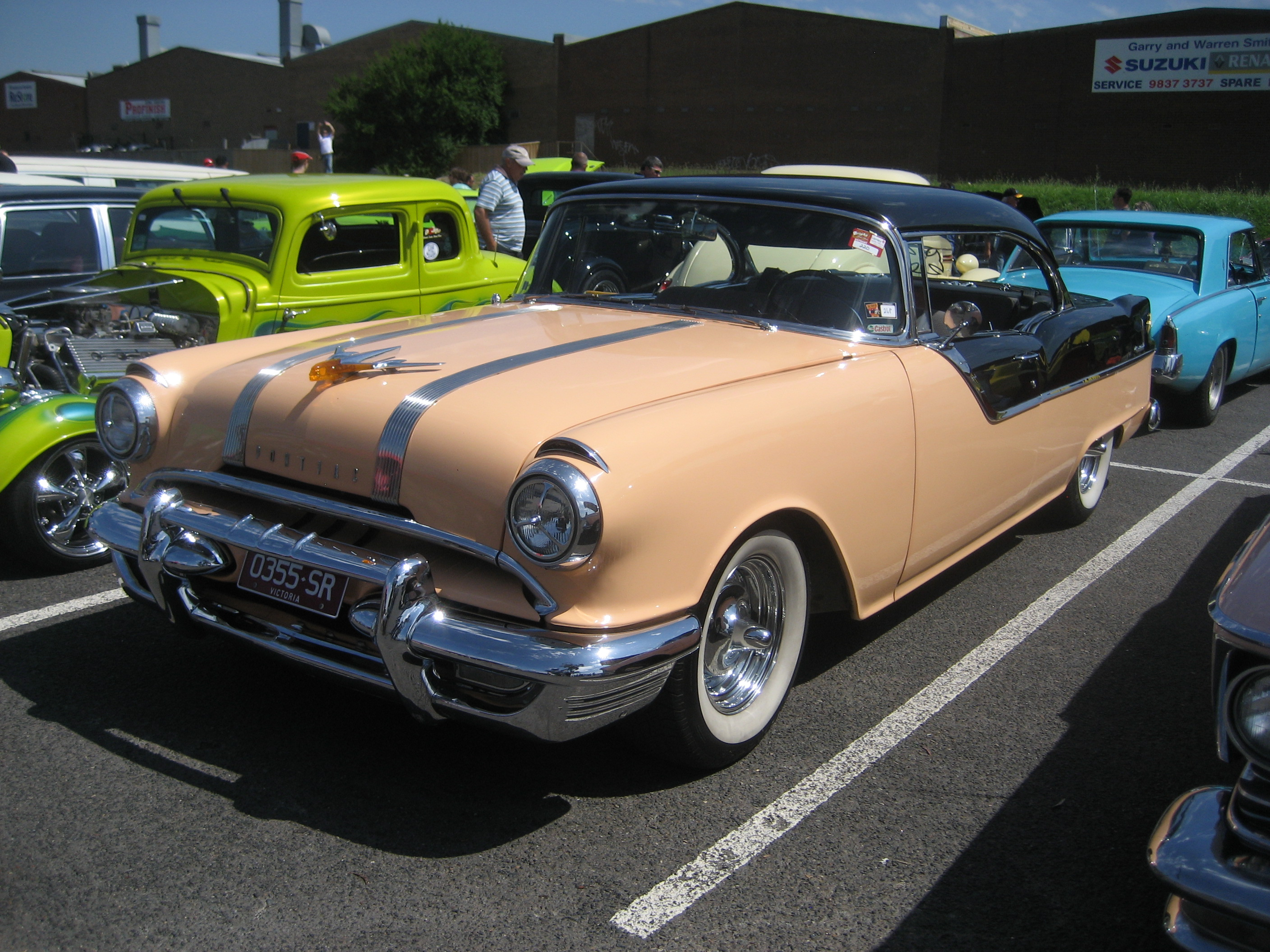 3rd Generation Chieftans; 1955-58. Available in Sedan, Coupe & Convertible, base Chieftan & upmarket Star Chief. Engine; 287 cu in V8